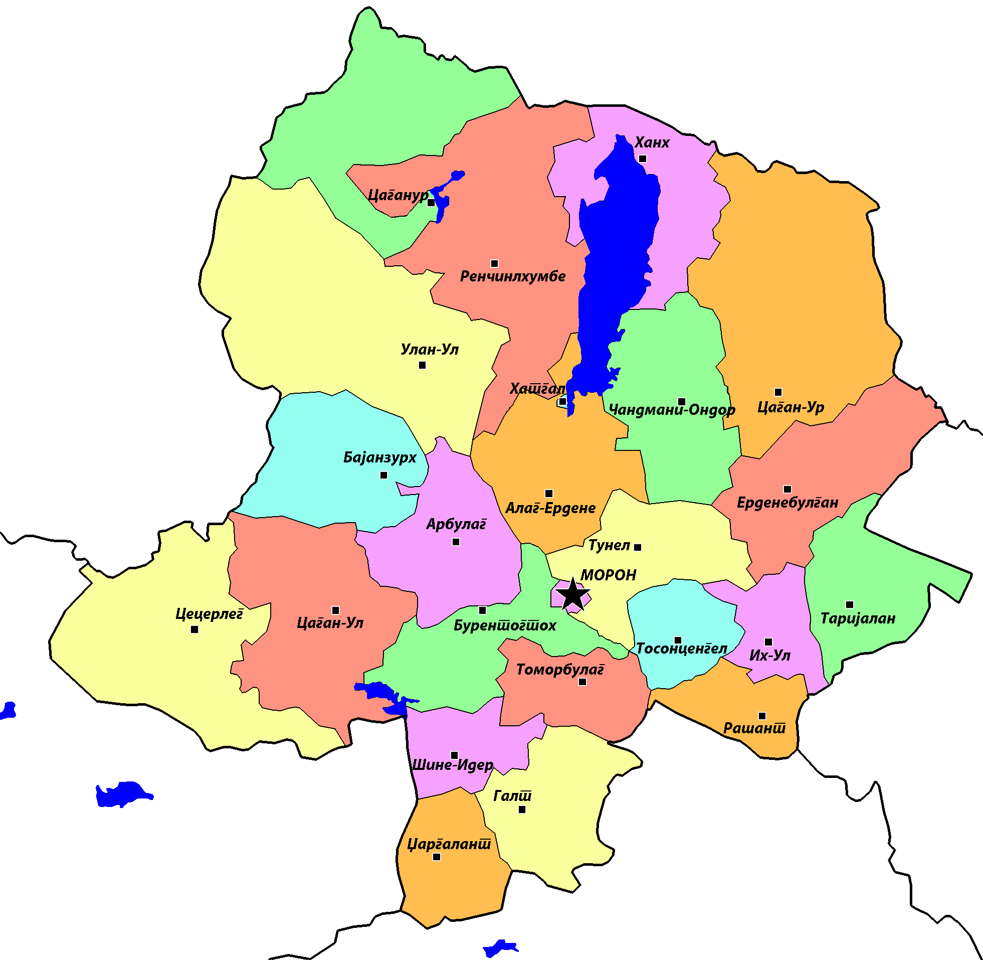 Translated map of Khovsgol Sum into Macedonian language